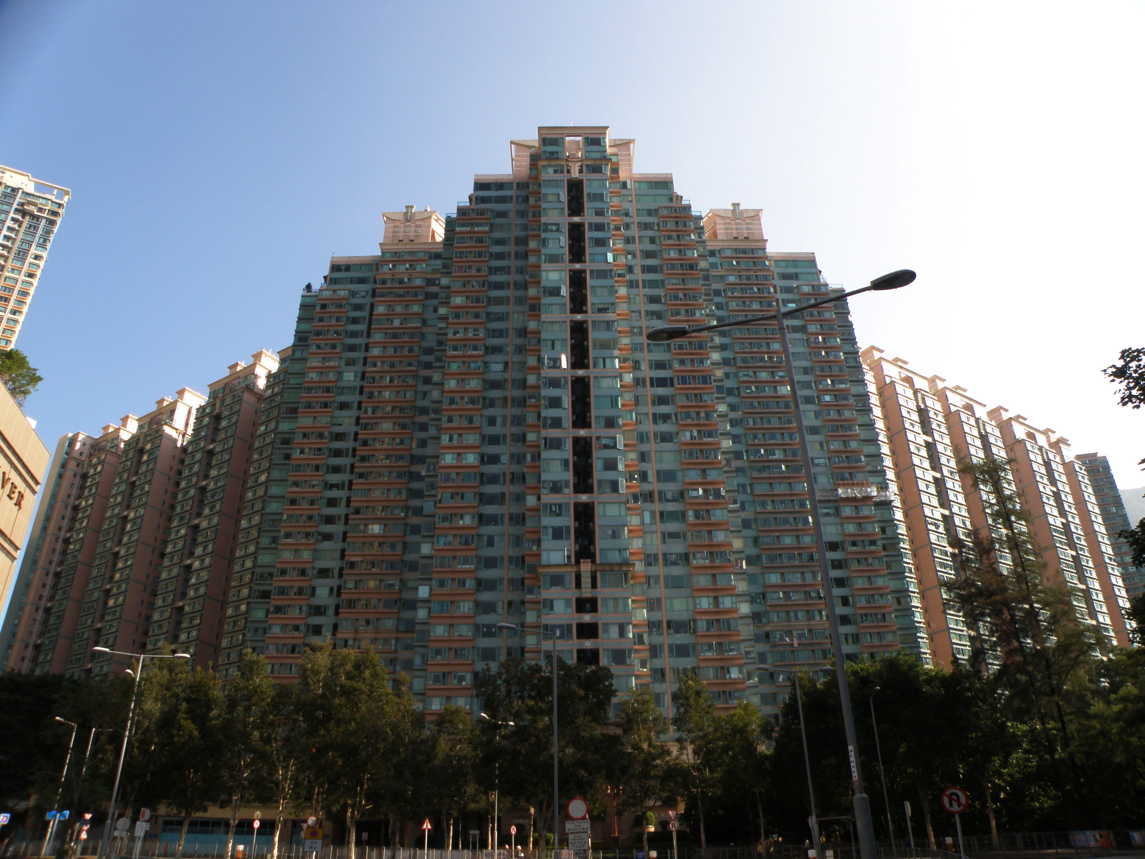 Monte Vista in Ma On Shan, Hong Kong.